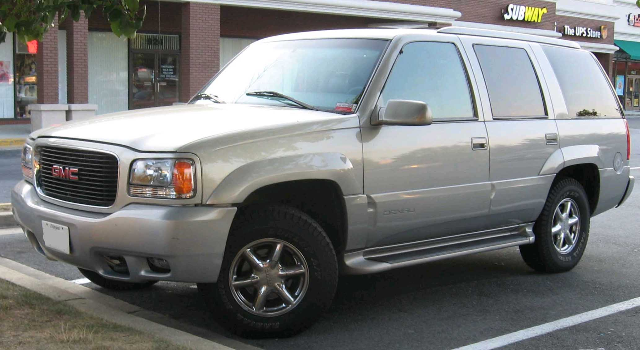 1998-1999 GMC Yukon Denali photographed in Fort Washington, Maryland, USA.